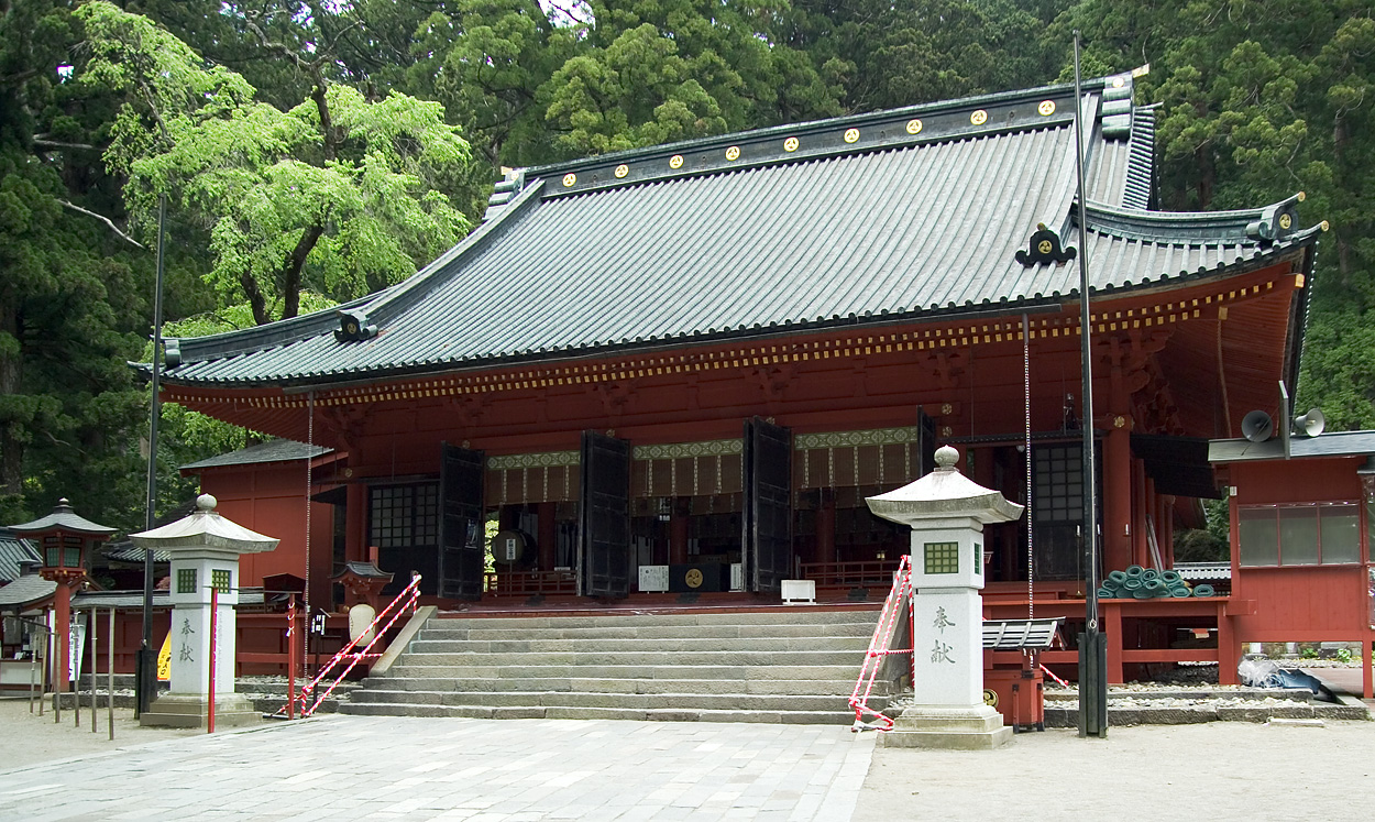 This photograph shows a building (probably the haiden 拝殿) at Futarasan Jinja 二荒山神社 in Nikko, Tochigi Prefecture, Japan. I took the photograph and contribute my rights in the file to the public domain; individuals and organizations retain rights to images in it.